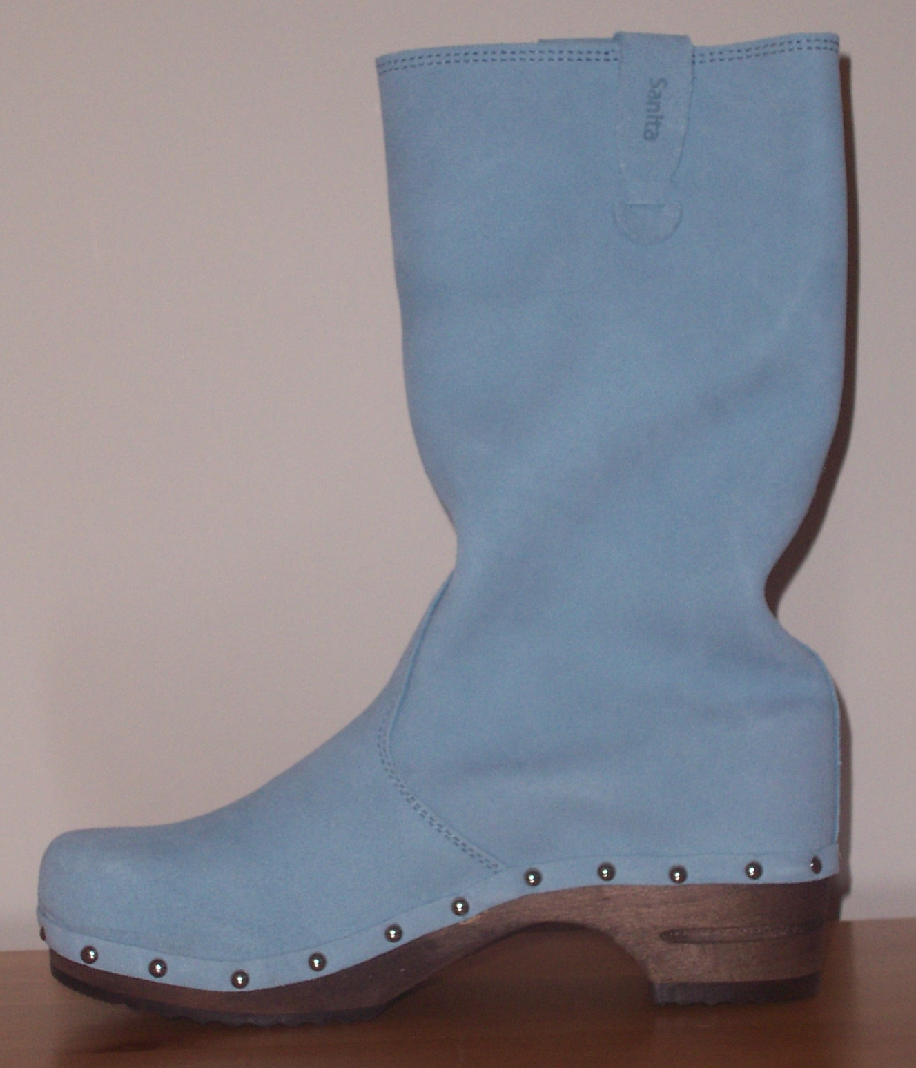 Boot with wooden sole and leather upper, made by the Danish company Sanita. Colour wood and light blue.